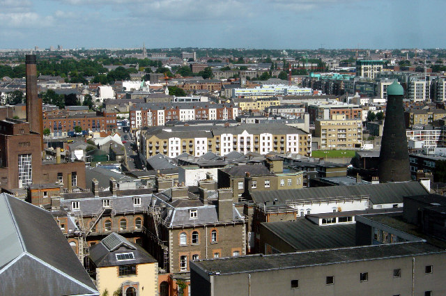 Dublin Cityscape looking north. Panoramic view north from the Guinness Building. Please let us know if the grid square is incorrect. I do not have the OSI discovery map of the Dublin area.